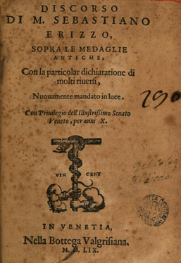 Discorso di M. Sebastiano Erizzo: sopra le medaglie antiche con la ..., 1559, Sebastiano Erizzo (1525-1585),italian humanist